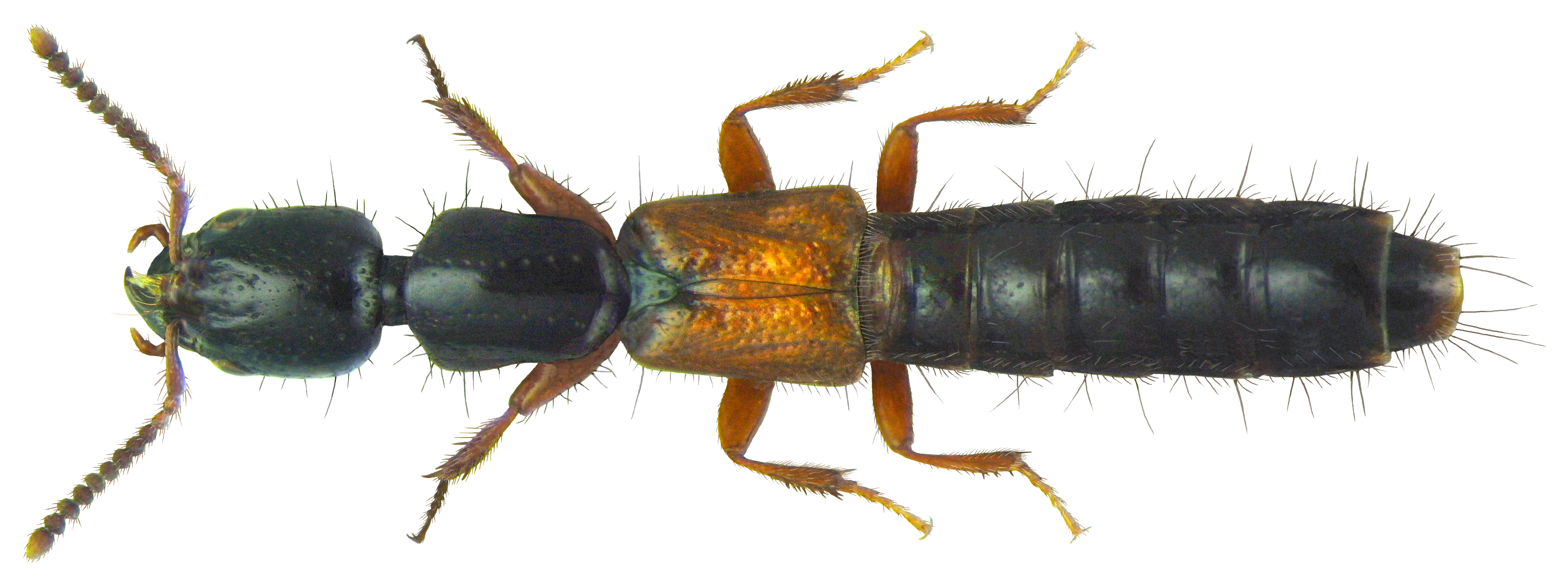 Family: Staphylinidae Size: 7-8 mm Origin: Europe Ecology: under pine bark Location: Germany, Bavaria, Upper Franconia, Selbitz leg.det. U.Schmidt, 11.VII.2001